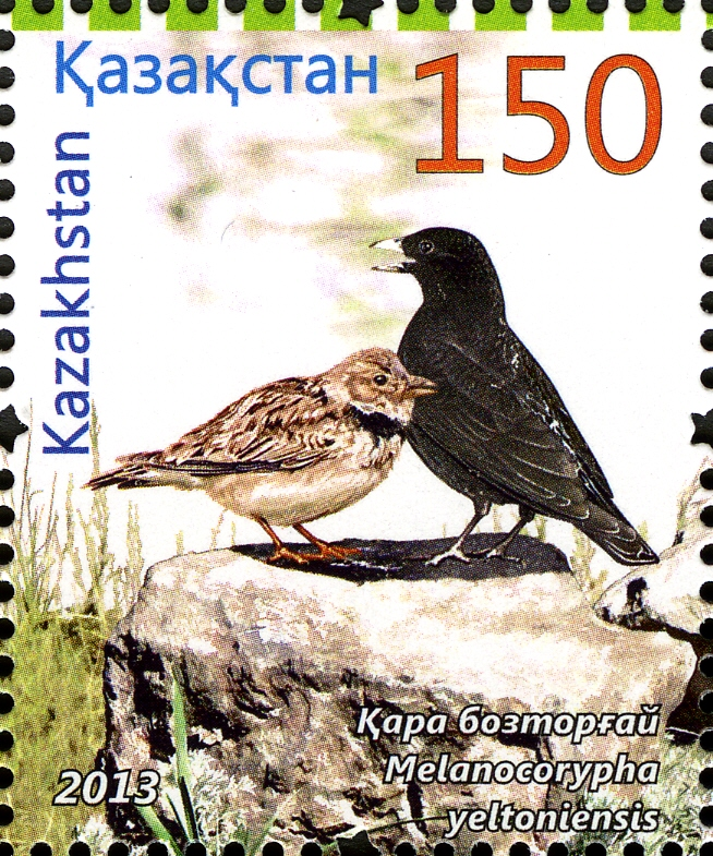 Stamps of Kazakhstan, 2013